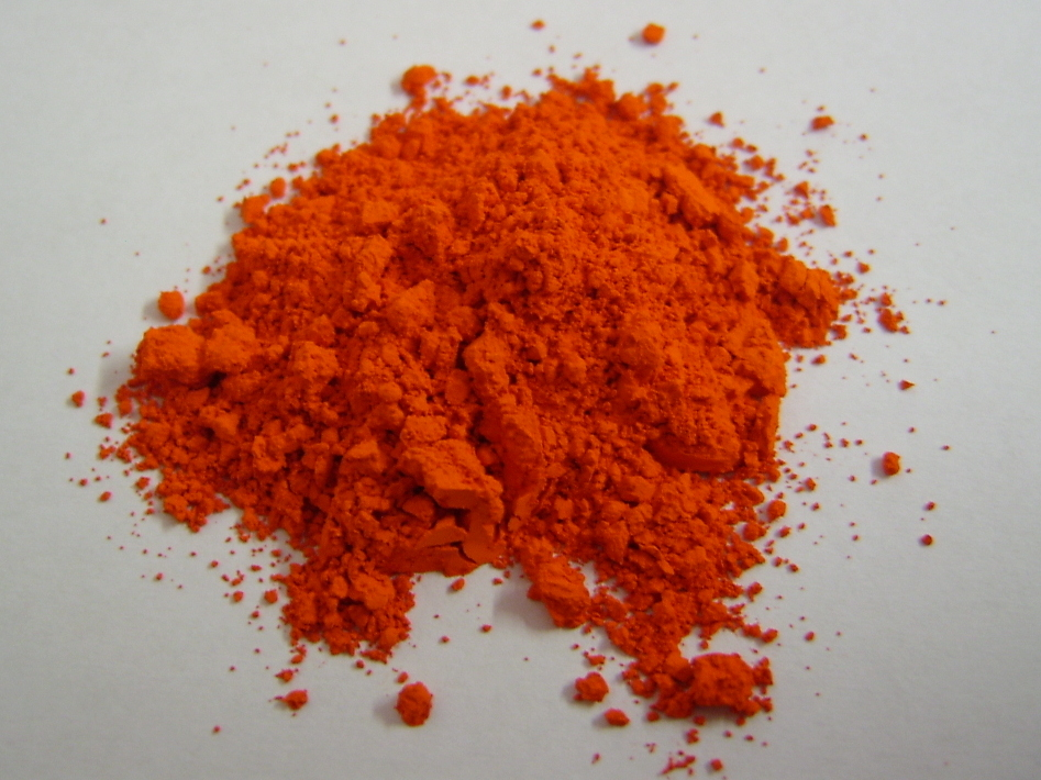 Red lead is a mixed valence crystalline compound, containing both lead (2) oxide and lead (4) oxide.